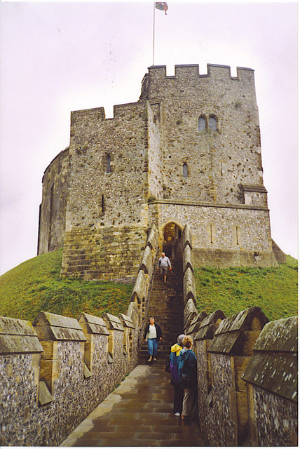 Arundel Castle Keep. The keep stands on a round earth mound, the motte, and is the oldest part of the castle.